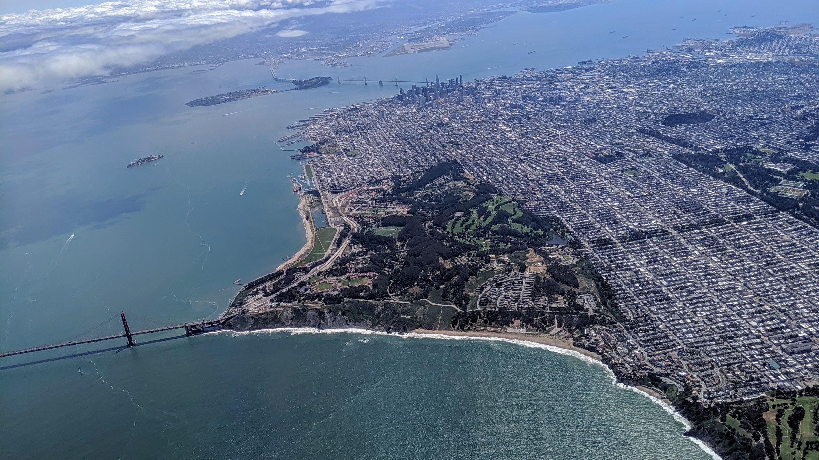 Aerial view from the northwest of the Presidio, San Francisco, California